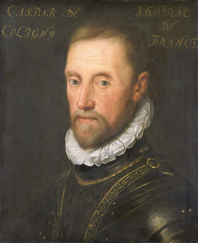 Portrait of Gaspard de Coligny (1517-1572). Part of the Leeuwarden series, a series of portraits of military officials from the Eighty Years' War as well as members of the House of Orange-Nassau, first documented in 1633 in the Stadhouderlijk Hof (Stadholder's Court) in Leeuwarden (see Object history).